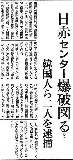 Asahi Shimbun Evening Edition newspaper clipping (5 December 1959 issue)